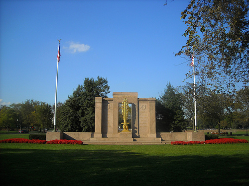 Second Division Memorial, which honors the 2nd Infantry Division, located in President's Park, Washington, D.C.